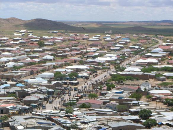 Overview of Las Anod, Somalia.